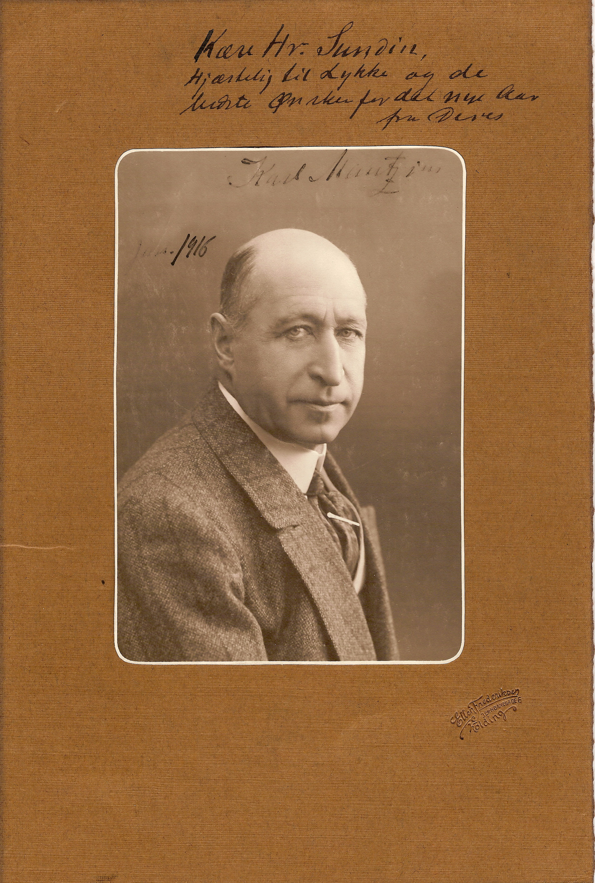 Karl Mantzius (1860-1921), Danish actor, director, producer and writer; founder of Dansk Skuespillerforbund. Photo inscribed to Swedish archeologist and student profile Olof Sundin.